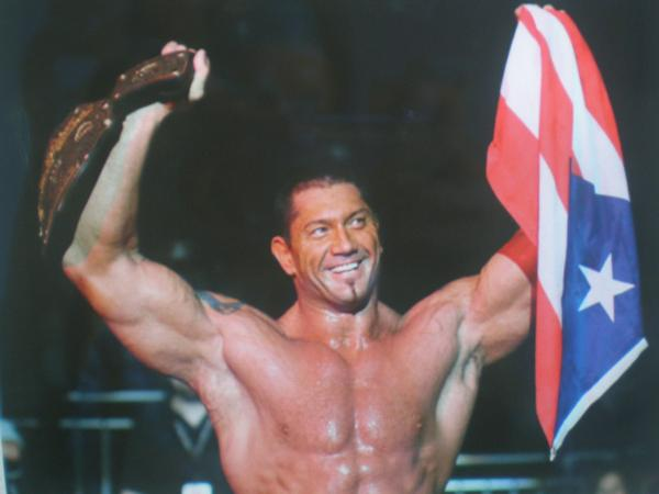 Batista holding the Puerto Rican flag.